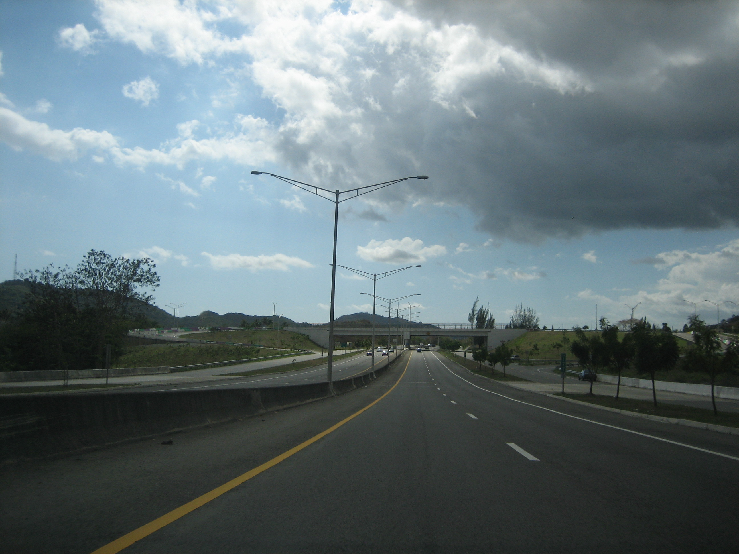 PR-2 Freeway